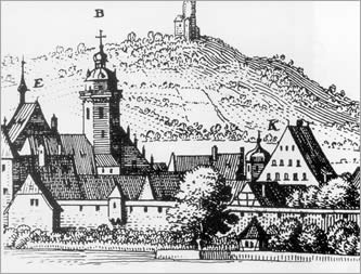 Grammar Scholl Karlsruhe-Durlach (Germany) - 1643